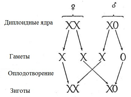 X0-sex determination system